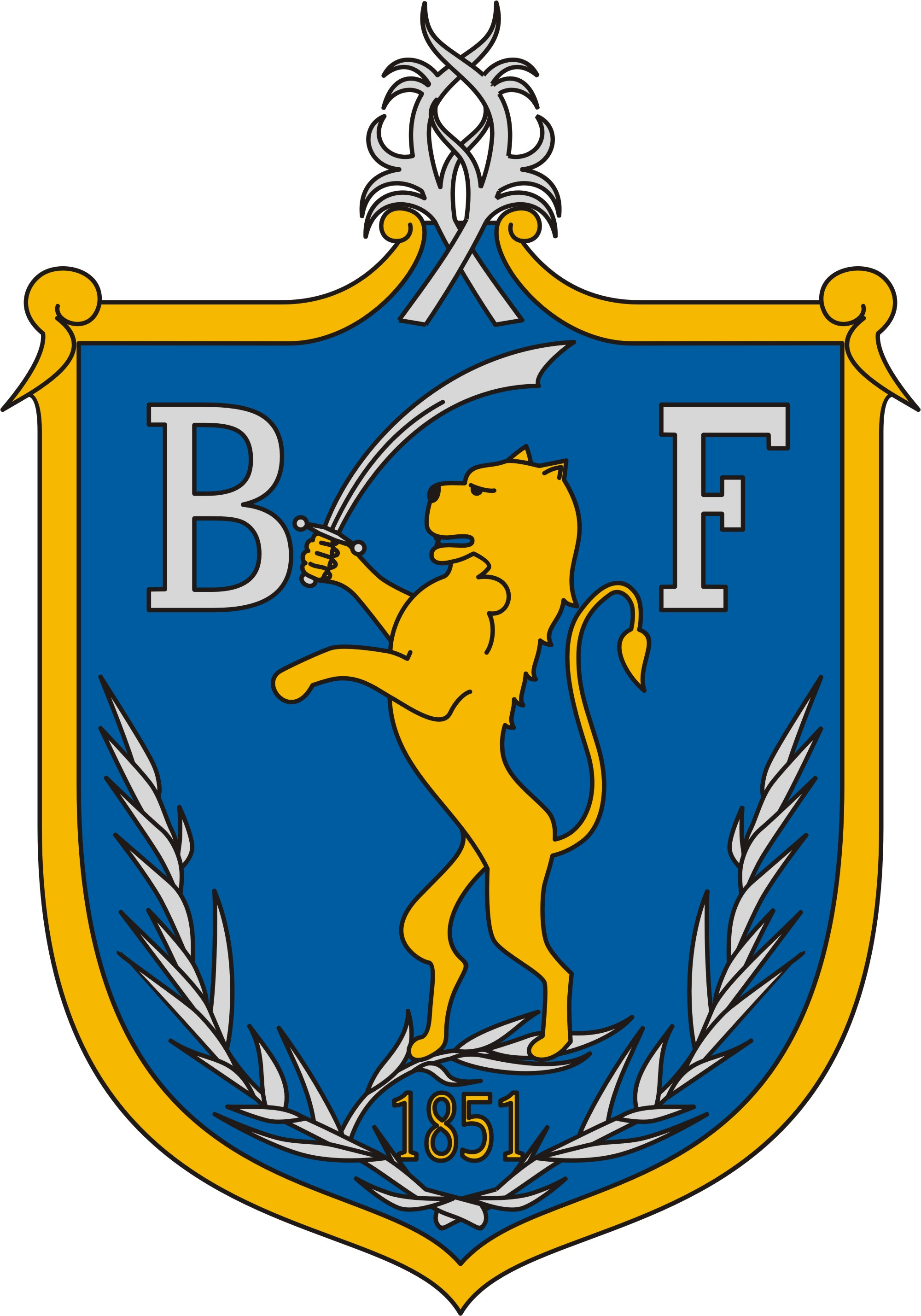 Coat of arms of Bodorfa, Hungary